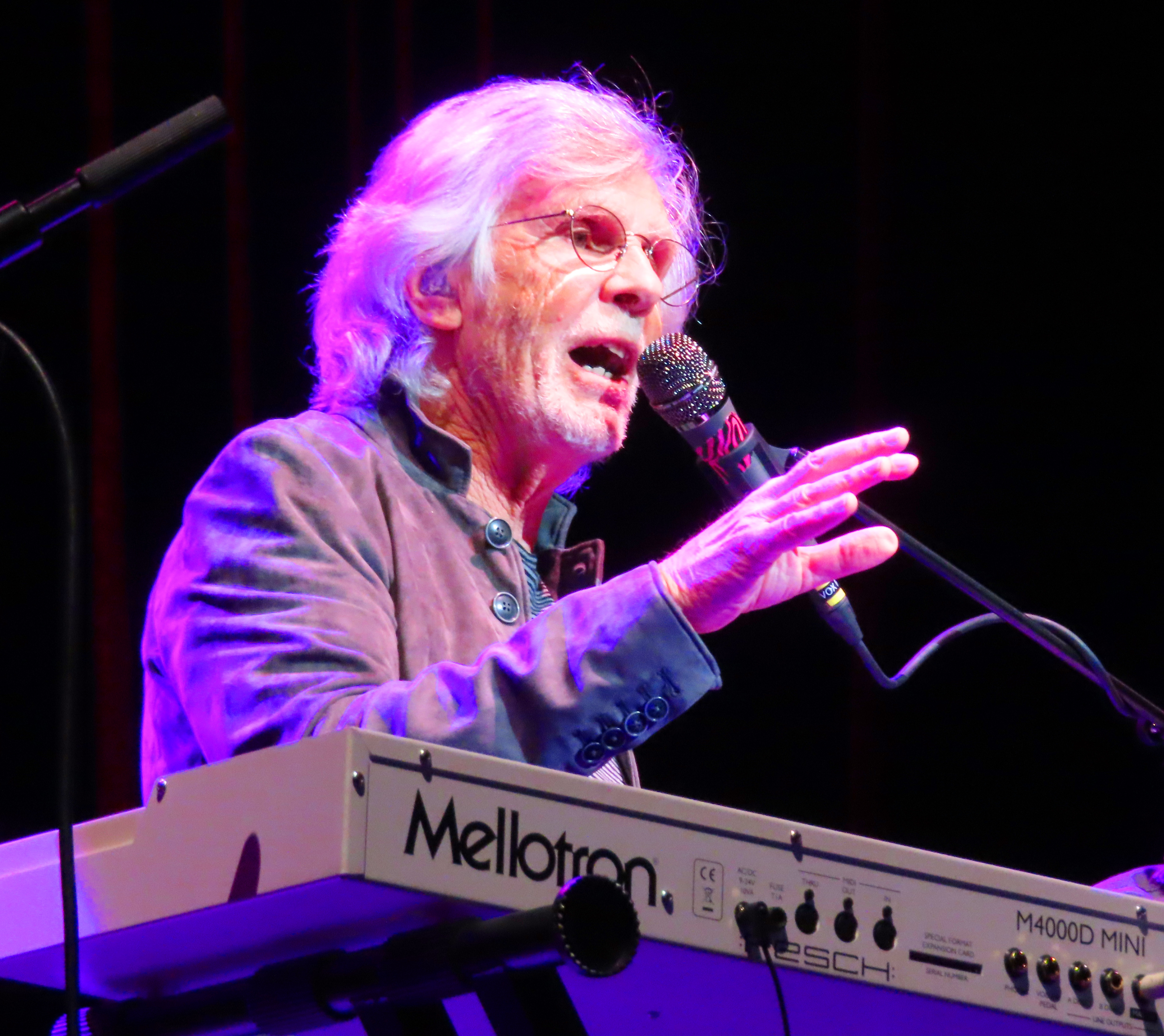 Rod Argent playing with The Zombies 2019